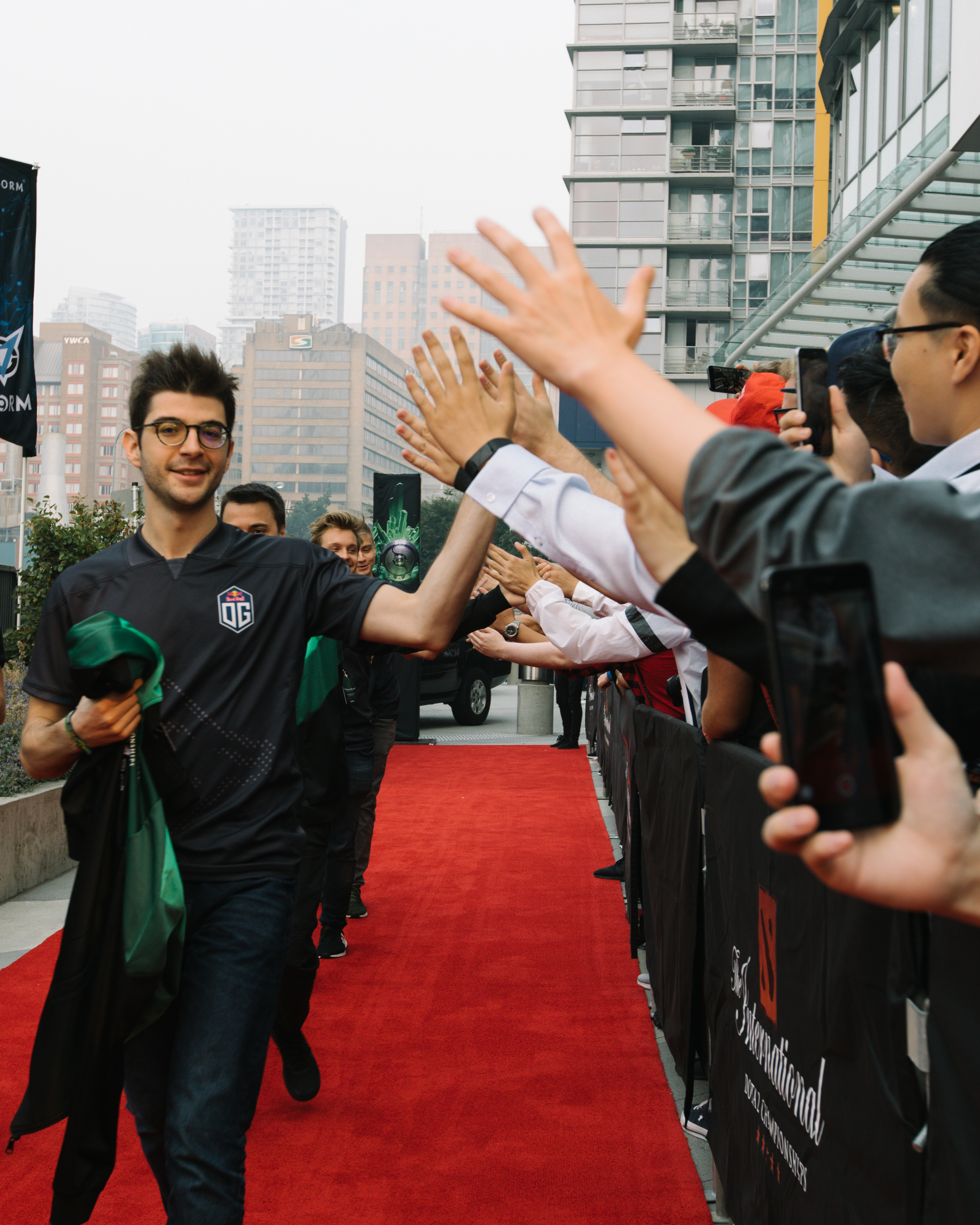 The International 2018